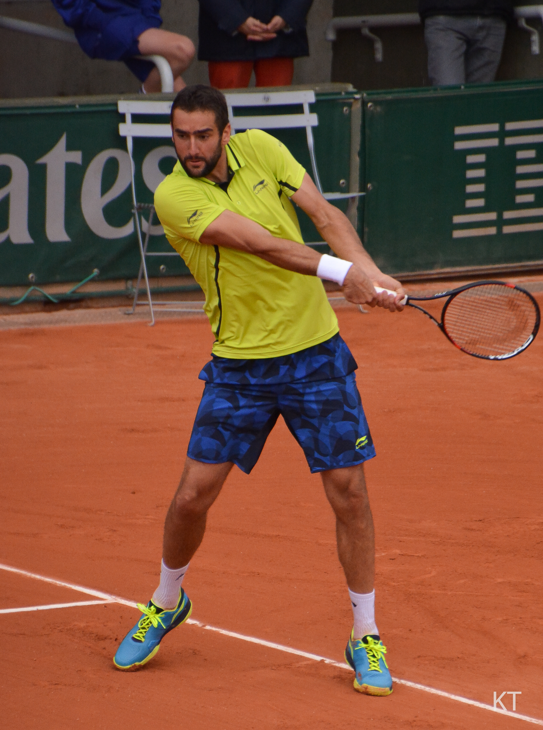 Qualifier Marco Trungelliti beat 10th seed Marin Cilic in 4 sets (7-6, 3-6, 6-4, 6-2) in the first round. Day 2 of Roland Garros 2016.